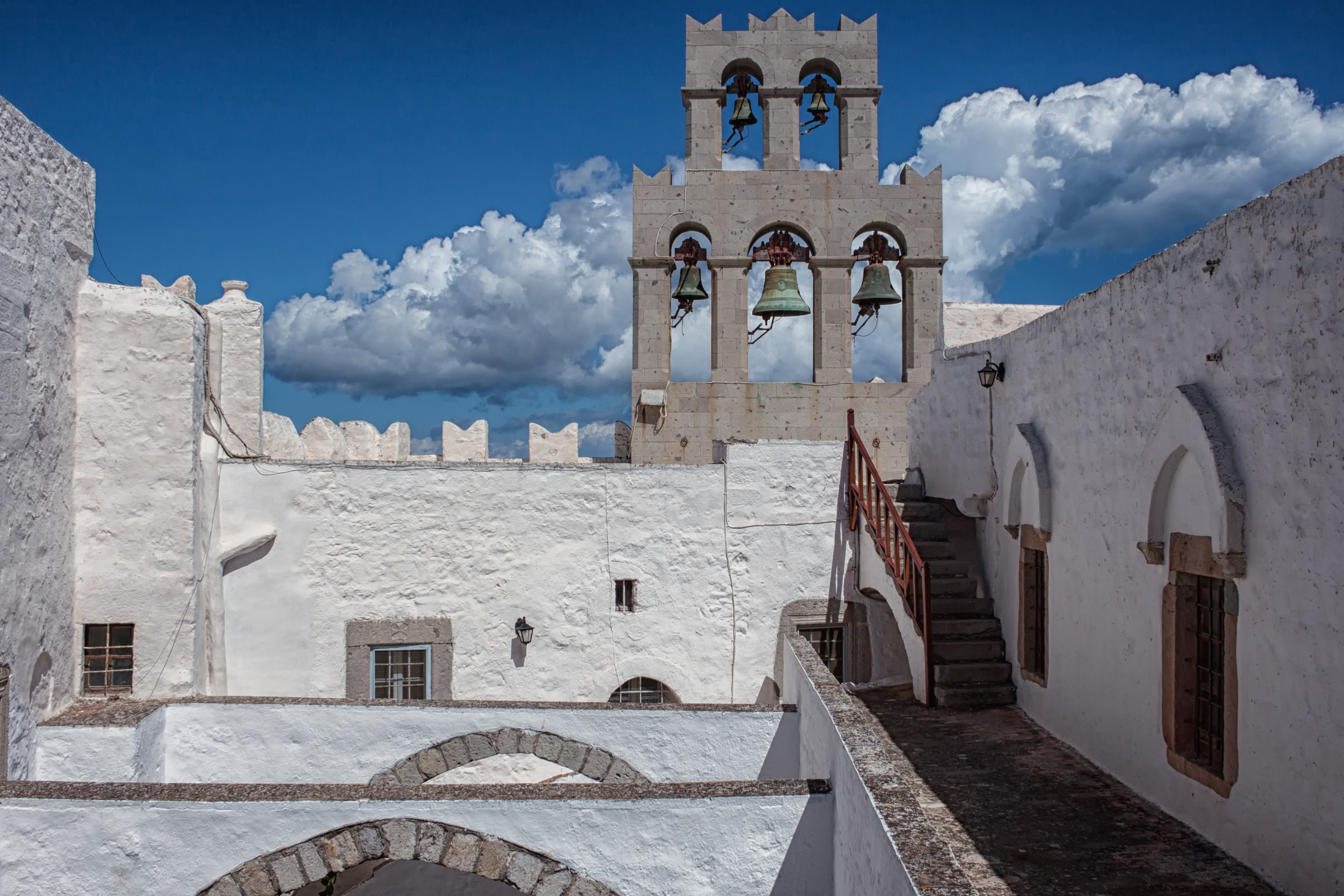 In the Monastery